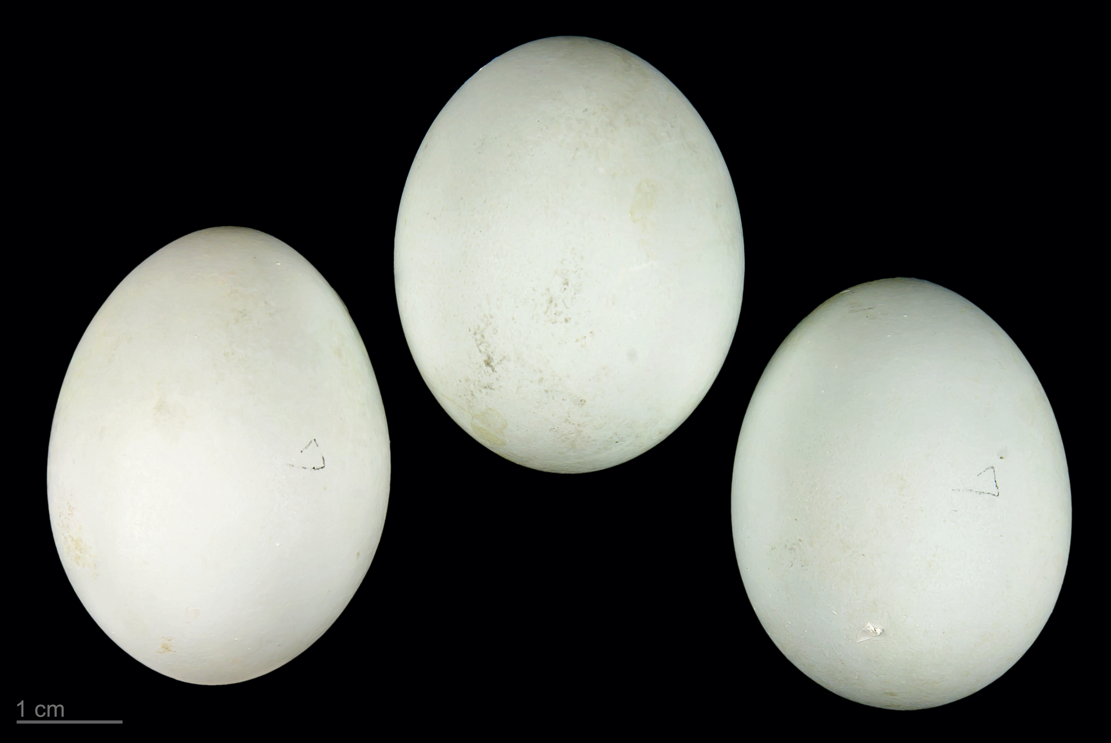 Eggs of Indian pond heron Three specimens of the same spawn ; collection of Jacques Perrin de Brichambaut.